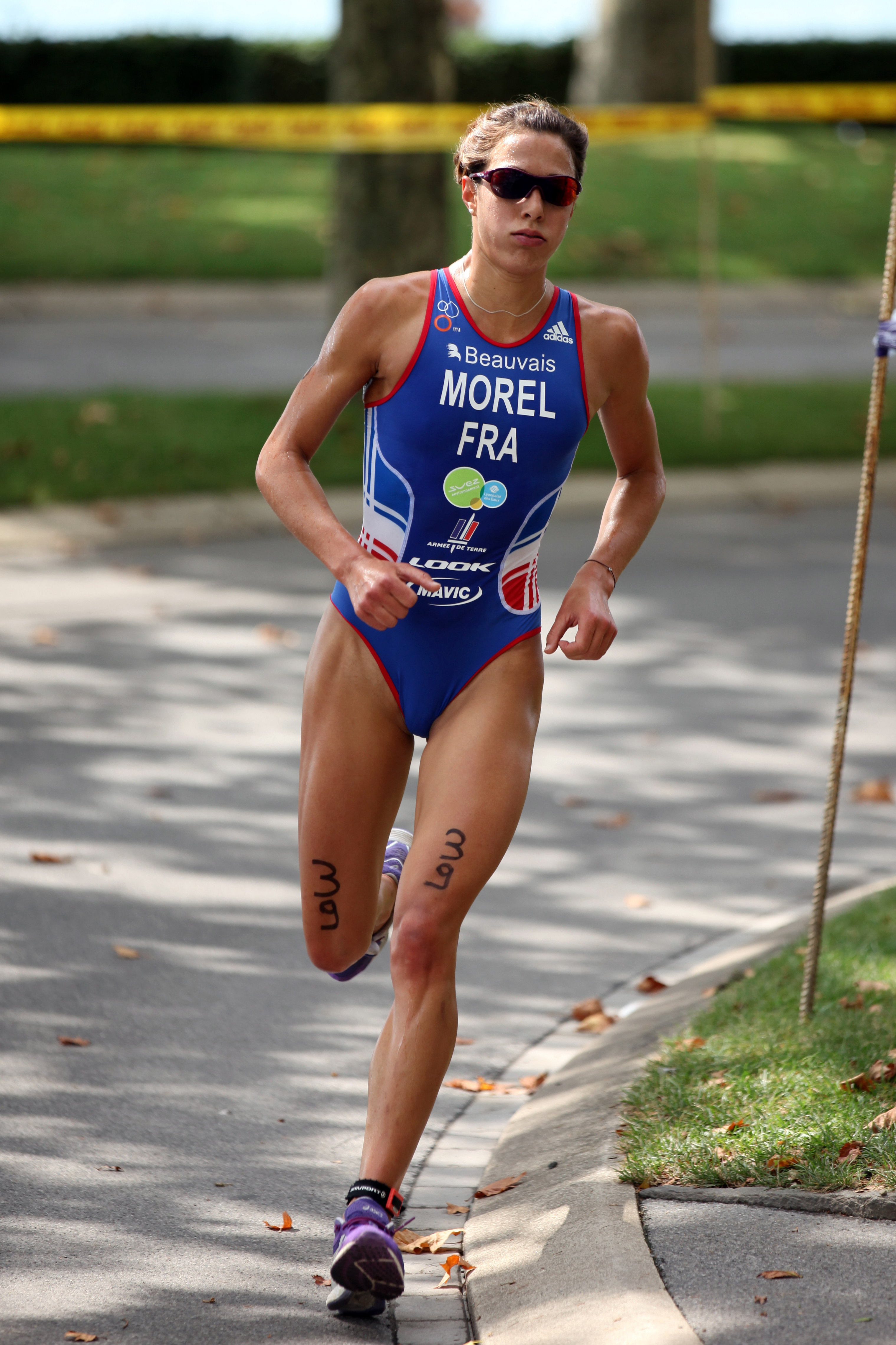 Charlotte Morel, bronze medalist at the Military Triathlon World Championship in Lausanne, 2012.